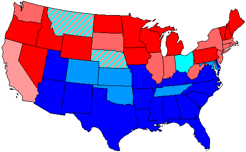 Summary of party control of U.S. house seats in the 65th United States Congress following election. Stripes indicate a tie between two or more parties. Legend: 80.1-100% Democratic seat majority 60.1-80% Democratic seat majority 60% or less Democratic seat plurality 60% or less Republican seat plurality 60.1-80% Republican seat majority 80.1-100% Republican seat majority